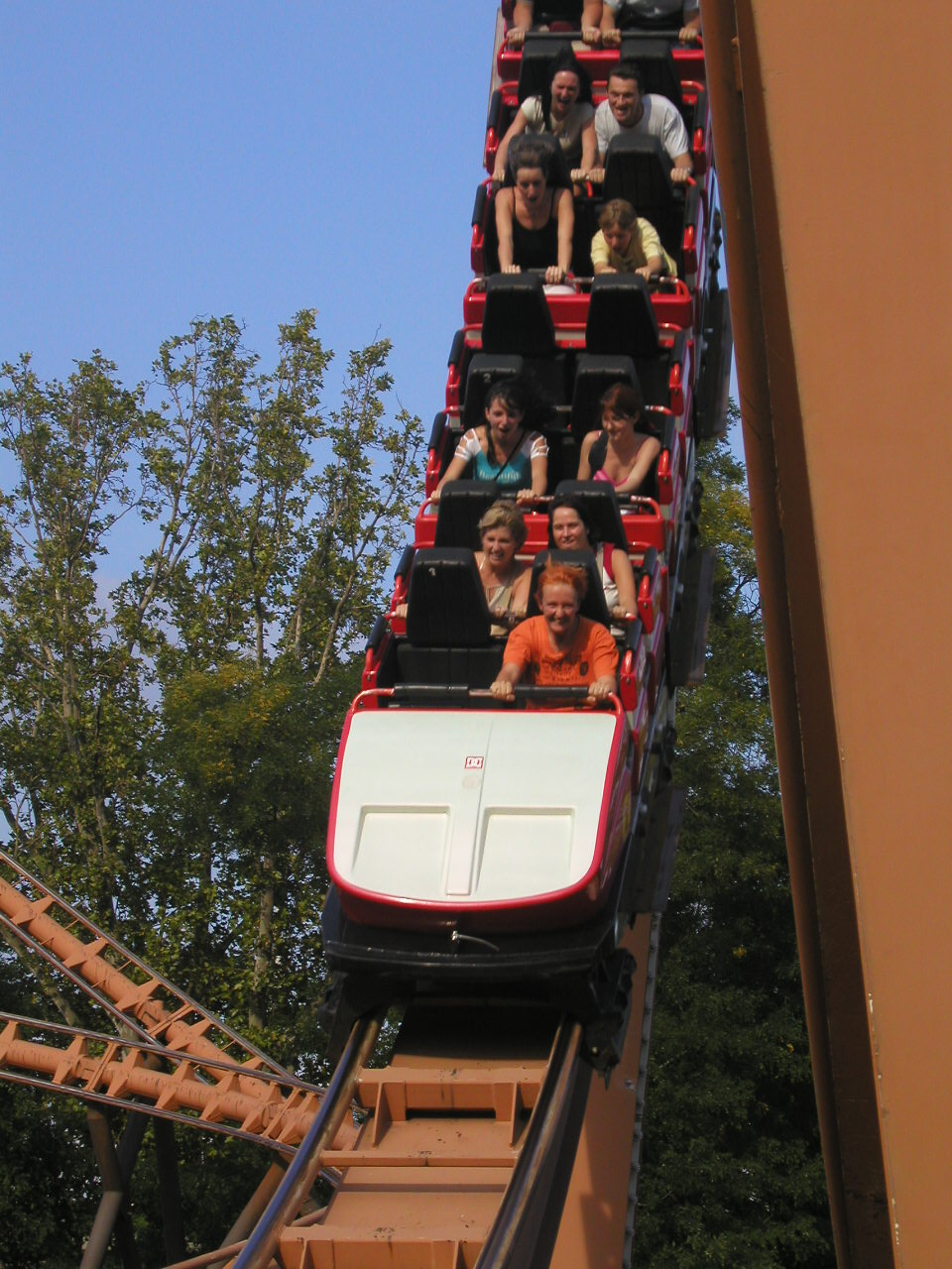 roller coaster Looping Star – a train finishing the loop (Vidámpark, Budapest, Hungary)